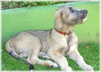 Arkin's, chiot Irish Wolfhound, propr. L. et S. Pruvot